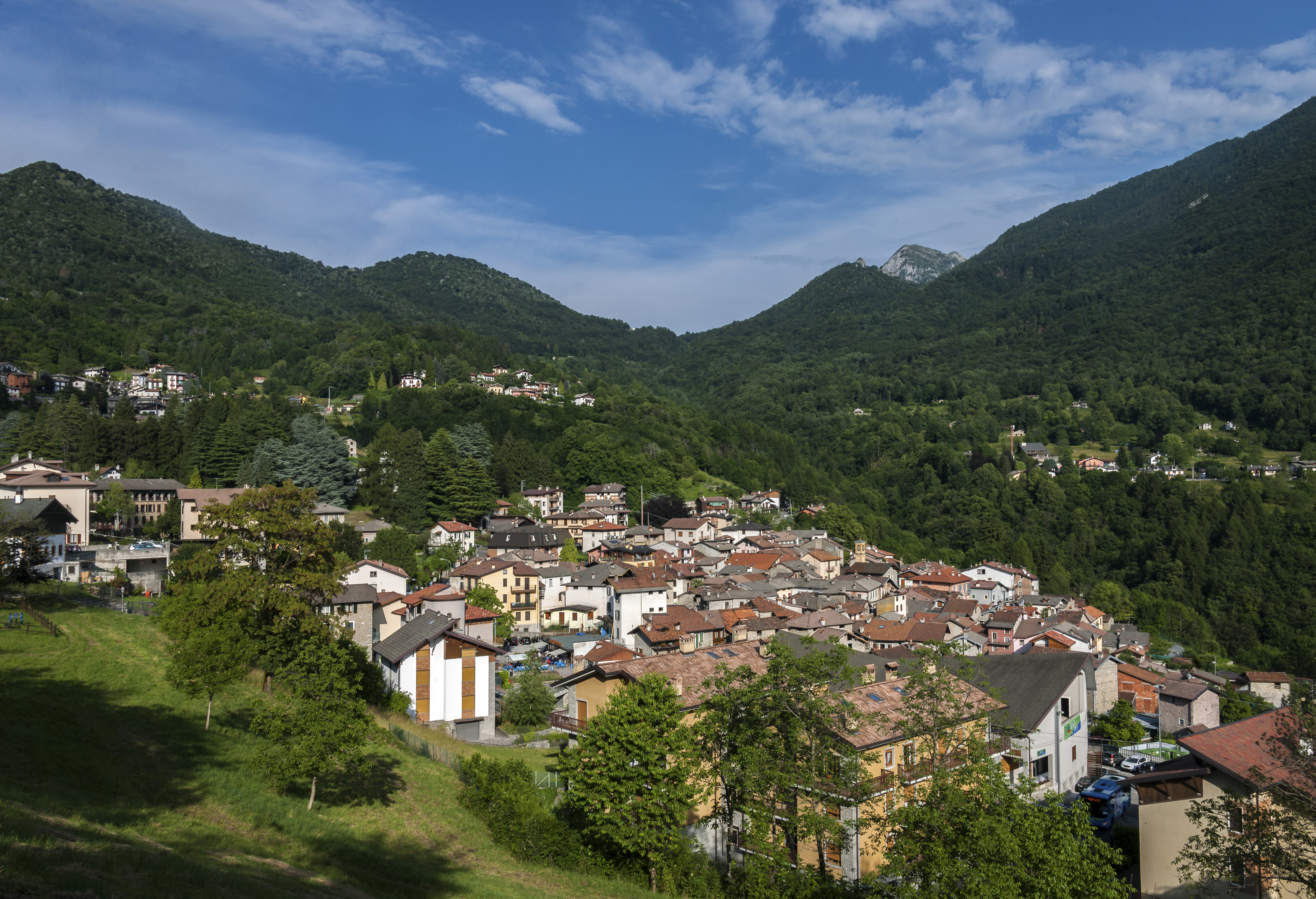 Lower Esino Lario seen from the viewpoint near the west end of the Stations of the Cross